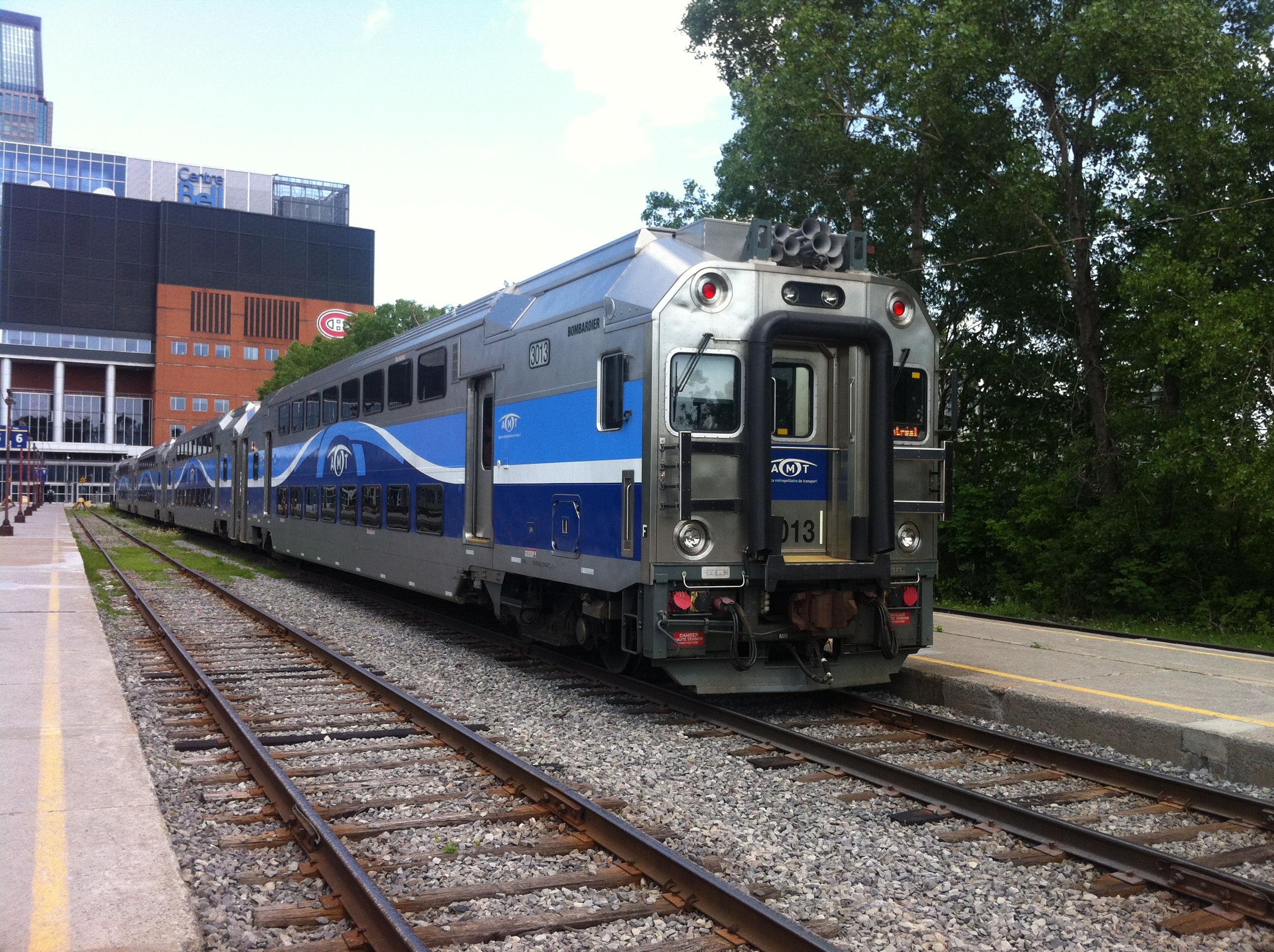 A multi-level coach of an AMT train at Lucien-L'Allier Station in Montreal.